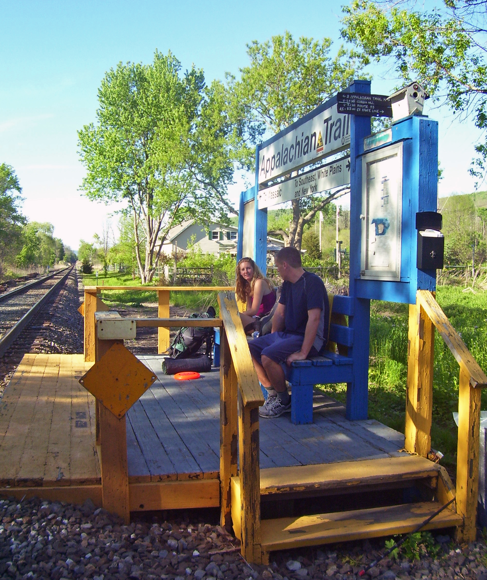 Looking north along track at Metro-North Appalachian Trail station, Pawling, NY, USA